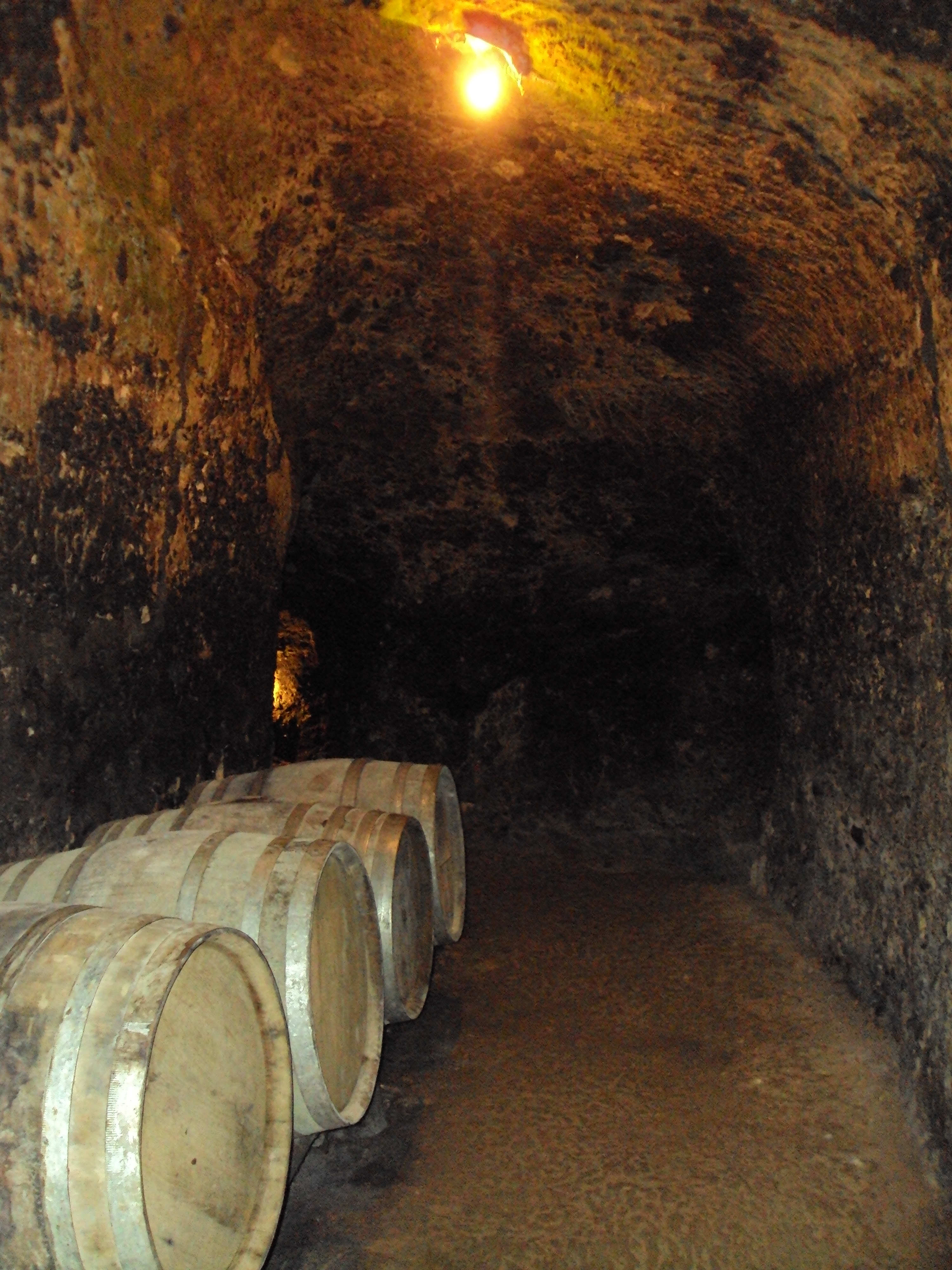 The town of Melnik